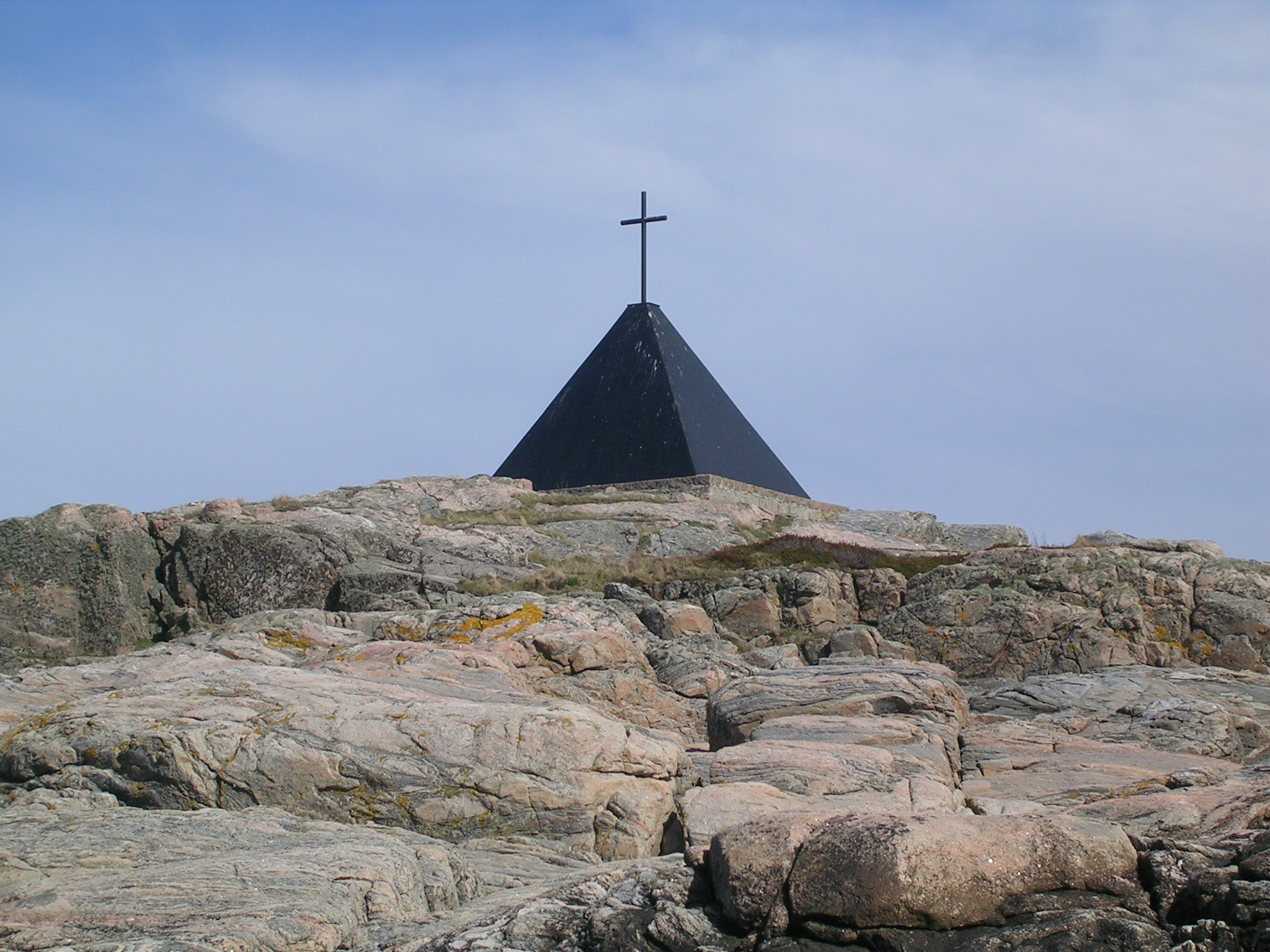 The memorial statue of Steamer Savonmaa, which shipwrecked January 20th 1937, seen from west, Kneblingen island, outside Mandal, Norway